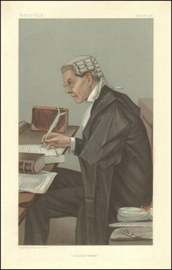 Statesmen No.747: Caricature of Mr John Lawson Walton KC MP. Caption reads: "a Radical lawyer"